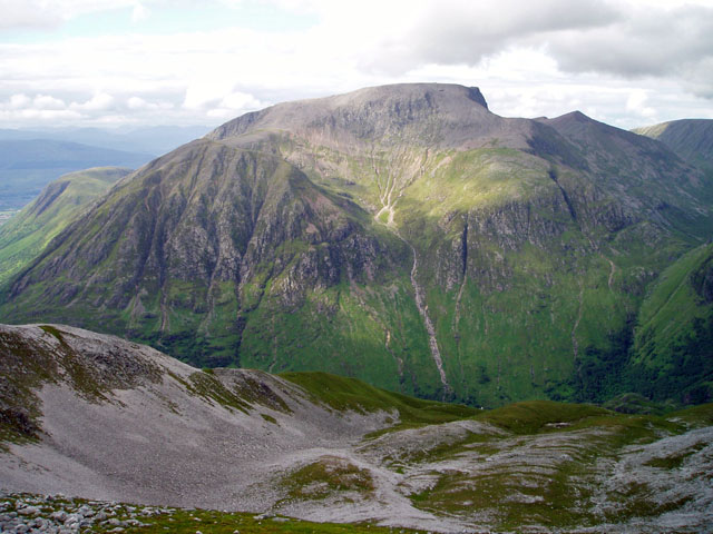 The south face of Ben Nevis from Sgurr a' Mhàim. Taken by Blisco on 5 July 2005.